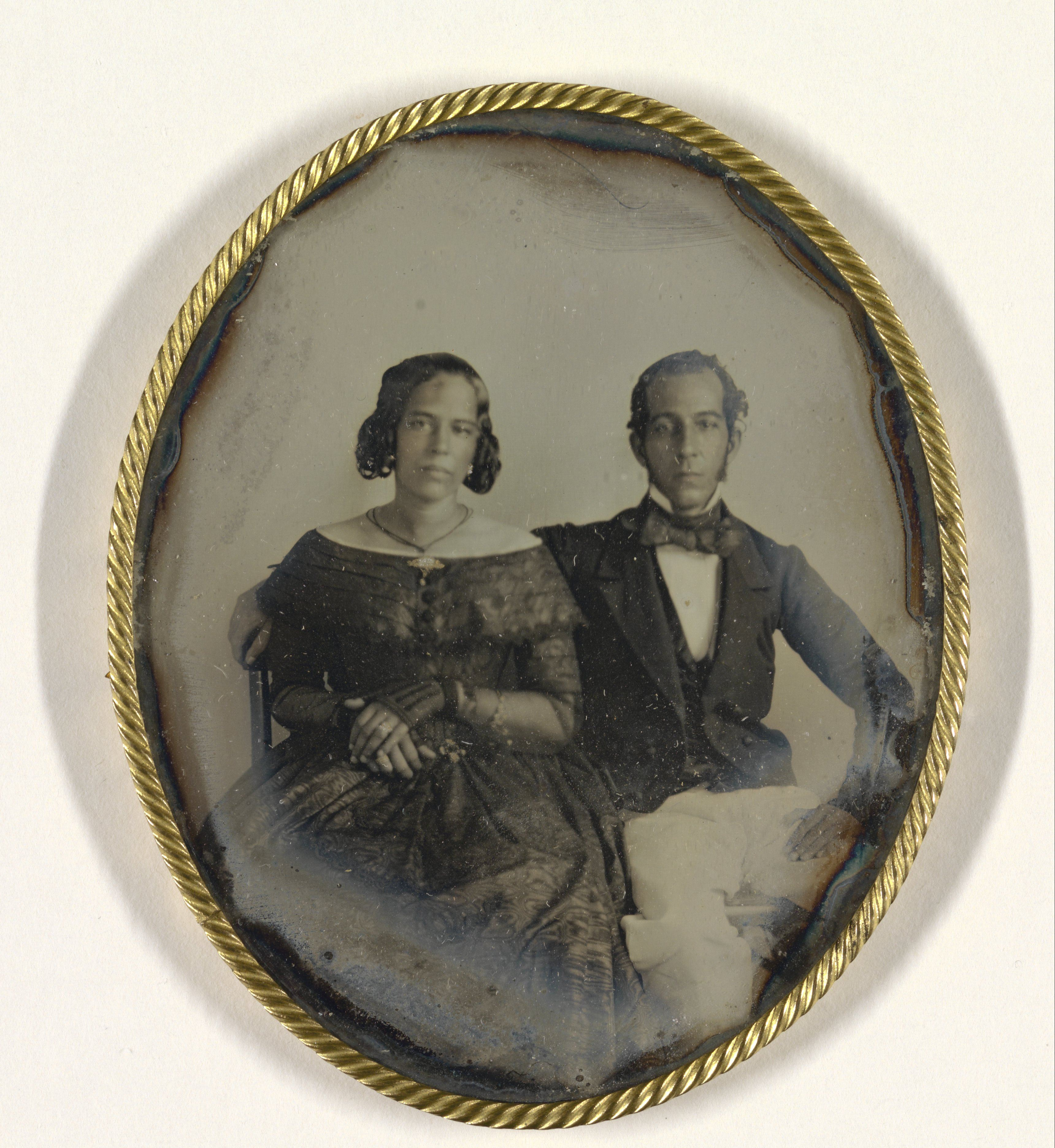 Maria Louise de Hart and Johannes Ellis. Daguerreotype. Dimensions unknown. Amsterdam, Rijksmuseum Amsterdam (inv.no. M-RP-F-BR-2009-1-00).